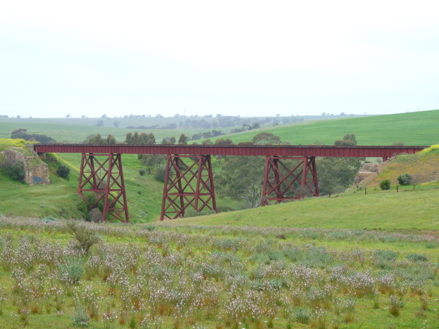 The railway bridge over the Light River at Hamley Bridge, South Australia